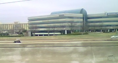 Author: Chris Miller Source: Took picture myself Fair Use: To show the Michelin North American headquarters in Greenville, SC.